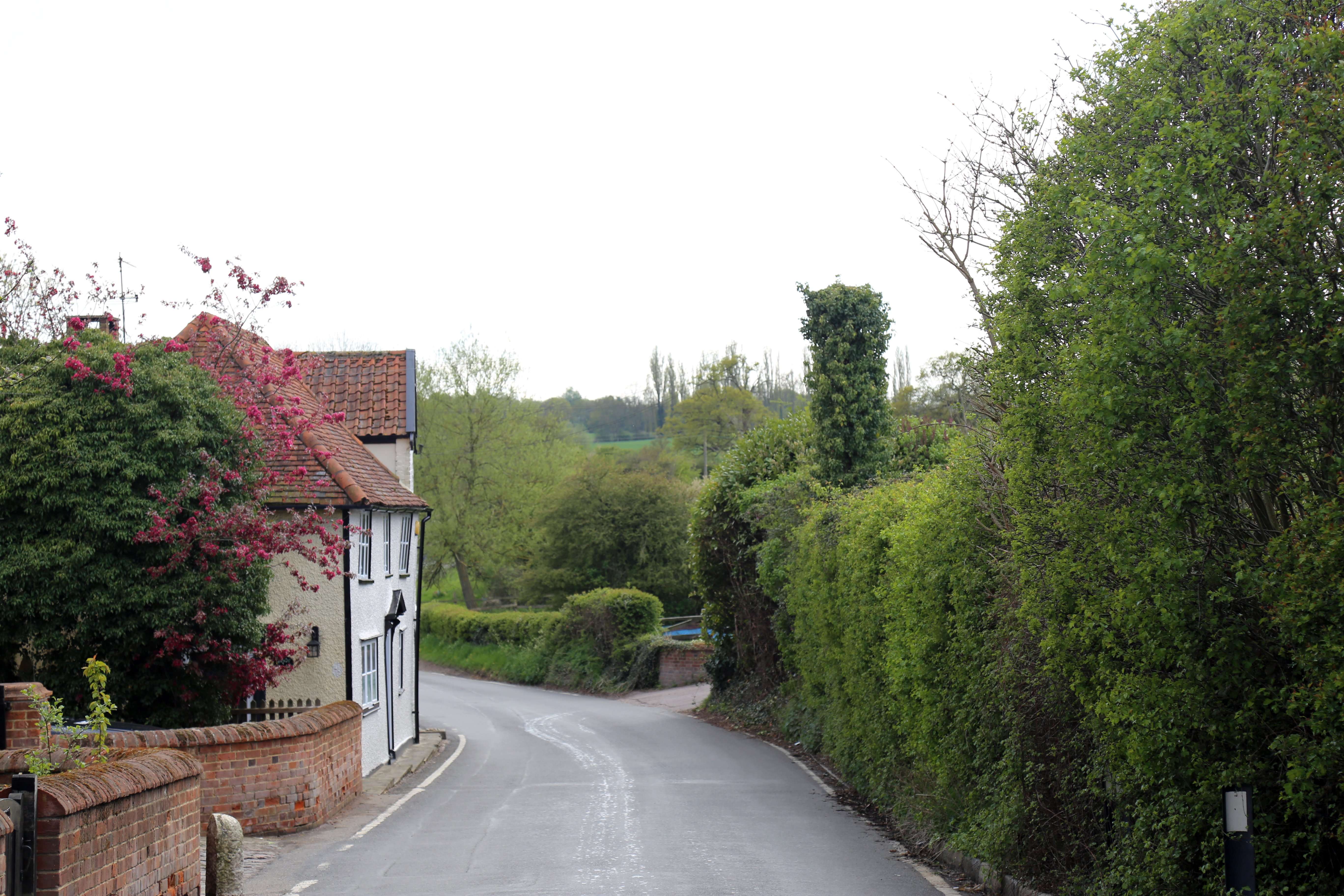 Along Bridge Road south from Church Road junction at Moreton village, Essex, England. The house on the left is Grade II listed 'Ivylands', a 17th and early 18th-century house.